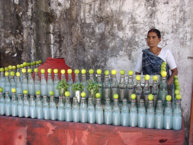 Soft drink, Soda-Lemonade stand with soda bottles topped with Lemons, Rishikesh.